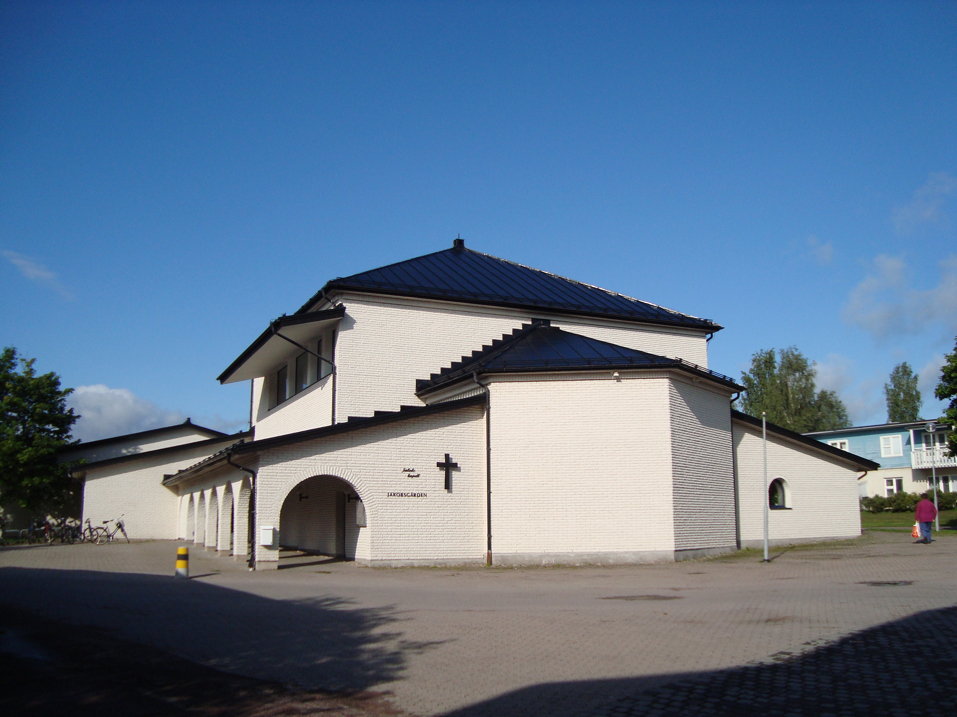 Chapel of Jakob (St. James), Borlänge, Sweden